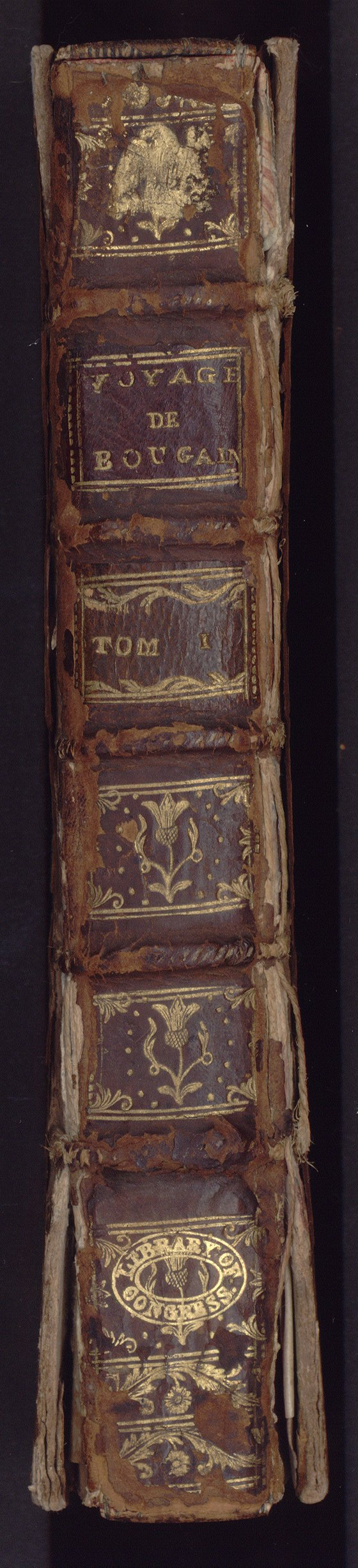 Following France’s defeat in the Seven Years' War (1756-63), Louis-Antoine de Bougainville (1729-1811), a soldier with a distinguished military record in Canada, received permission from King Louis XV to undertake France’s first major geographical exploration of the Pacific. In 1766-69 Bougainville became the first Frenchman to circumnavigate the globe. His voyage, meticulously recounted in this book, resulted in several significant scientific contributions, including establishing the precise location of a number of Pacific islands and determining the width of the Pacific Ocean. However, it was Bougainville’s observations of people and cultures, especially the people of Tahiti, that made his voyage and subsequent account famous. Coming at a time when most of Europe, and France in particular, was experiencing a "Pacific craze," Bougainville's idyllic and romantic account of his stay at Hitiaa, on the east coast of Tahiti, helped to make this work a major literary success. His portrayal of the people of Tahiti influenced philosophers such as Jean-Jacques Rousseau (who propounded the idea of the “noble savage”) and Denis Diderot. Description and travel; Ships; Tahiti (French Polynesia); Voyages around the world